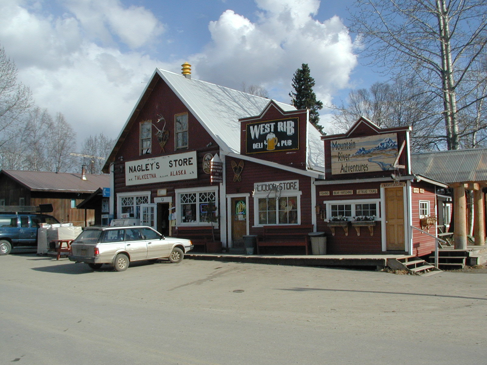 RV 2002 Roadtrip Talkeetna, Denali, Fairbanks